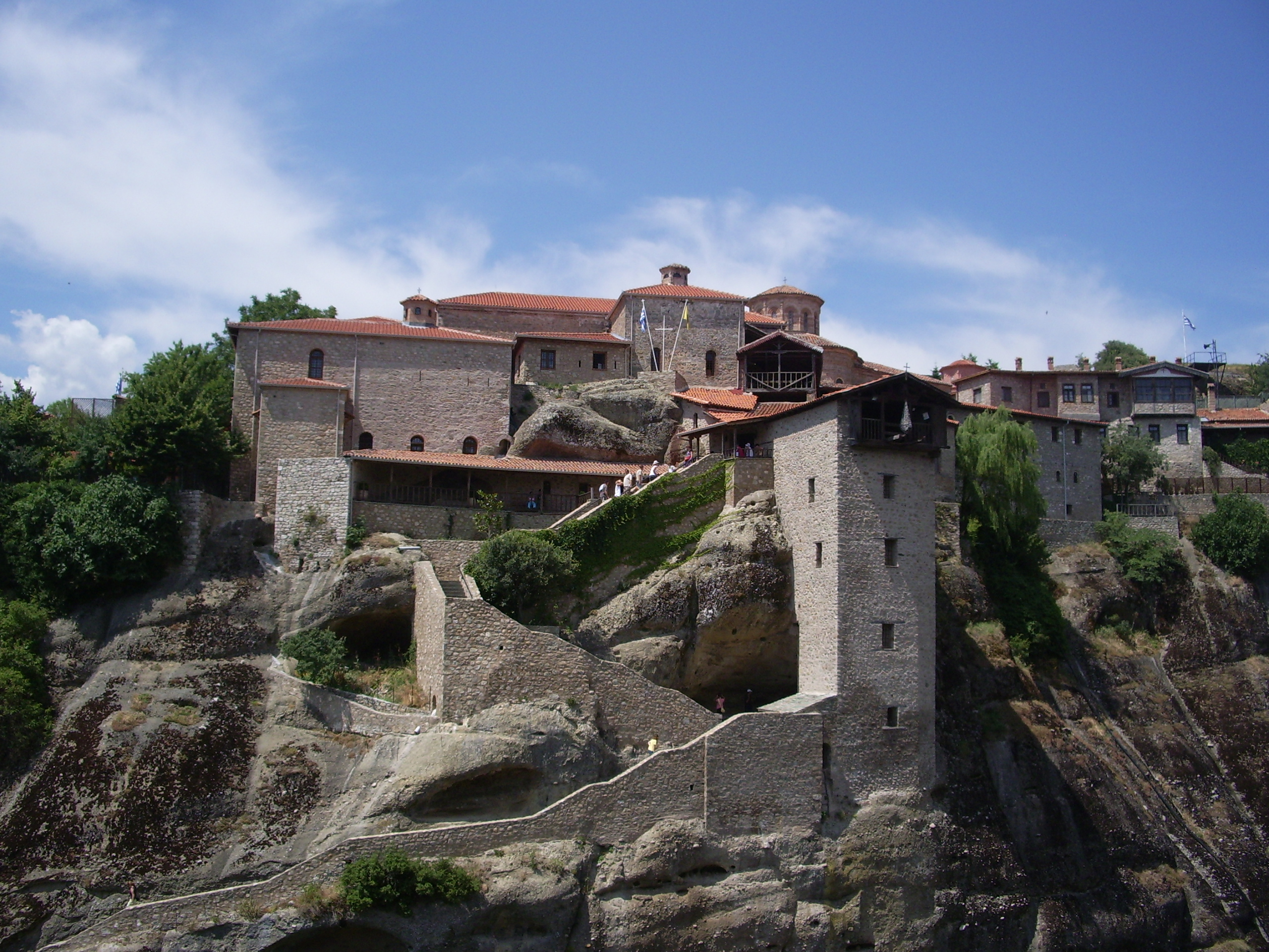 Monastery of Great Meteora (Moni Megalou Meteora)